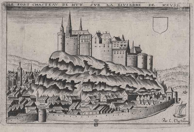 Ancient sketching of Huy Castle by Claude Chastillon (1159/60-1616). Demolished in 1715.